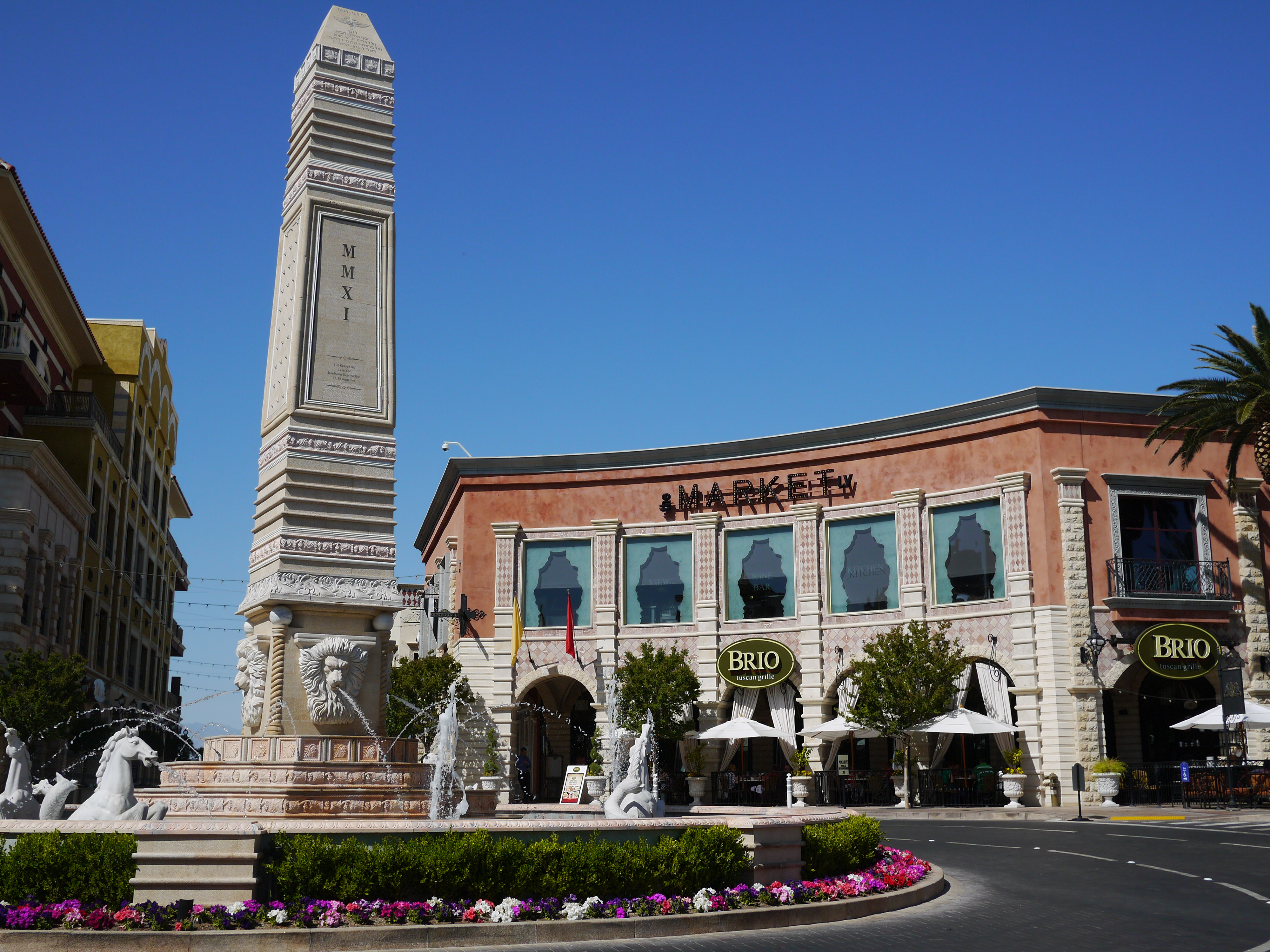 A roundabout at Tivoli Village in Las Vegas.